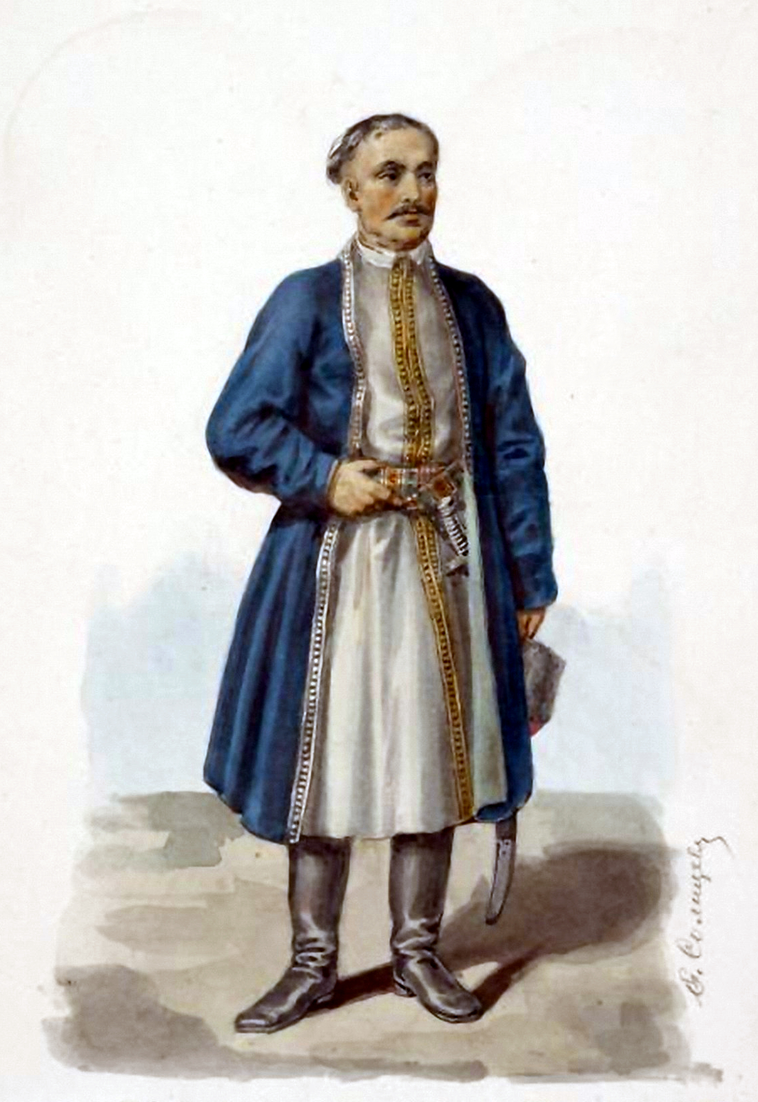 Officers of the Don Cossacks the end of the 18th century.